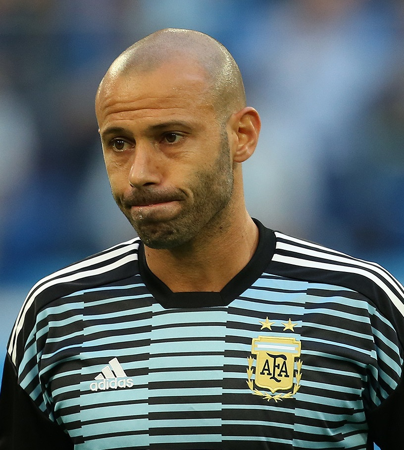 Javier Mascherano with Argentina against Nigeria in the 2018 FIFA World Cup